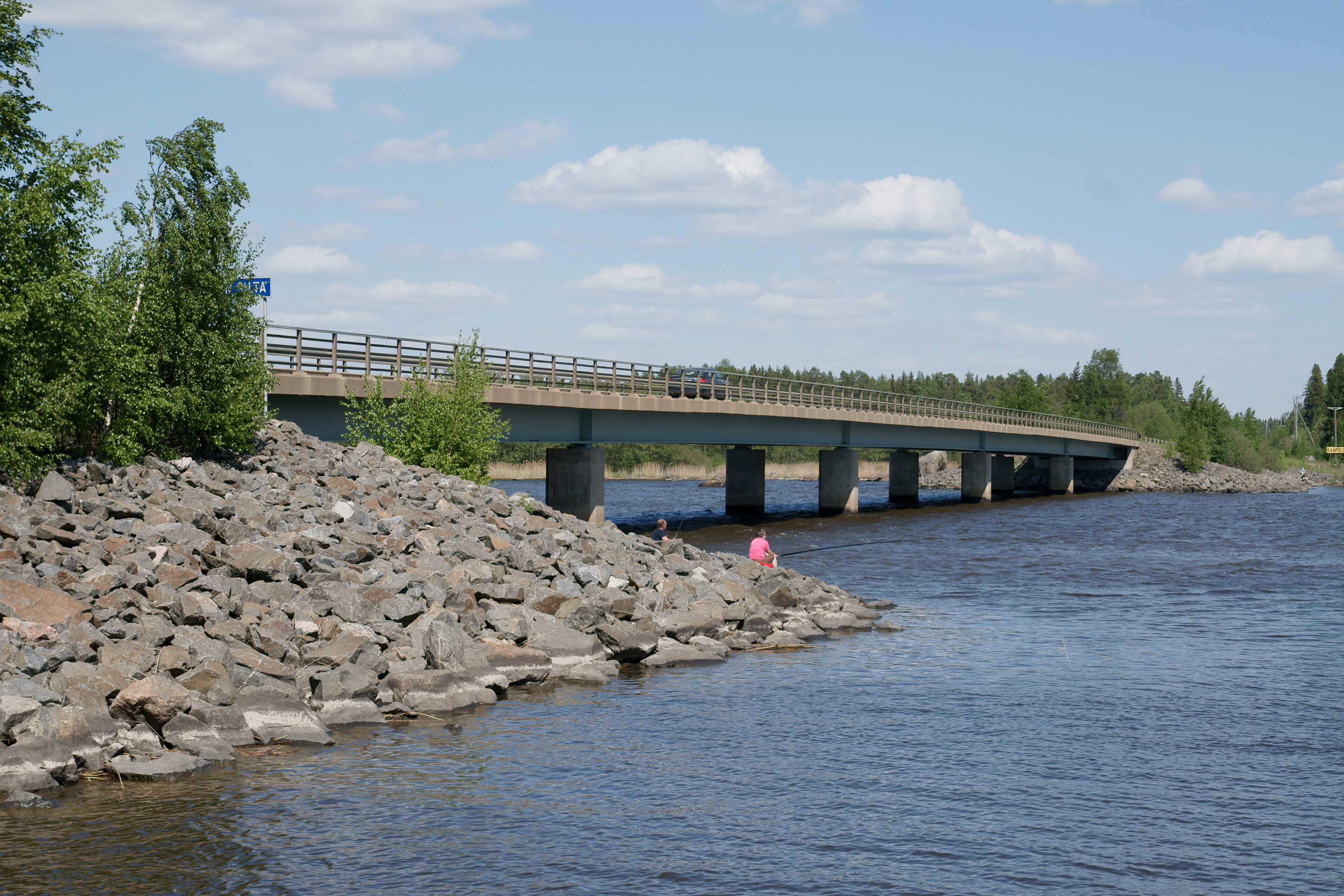 The bridge of Revaskeri.